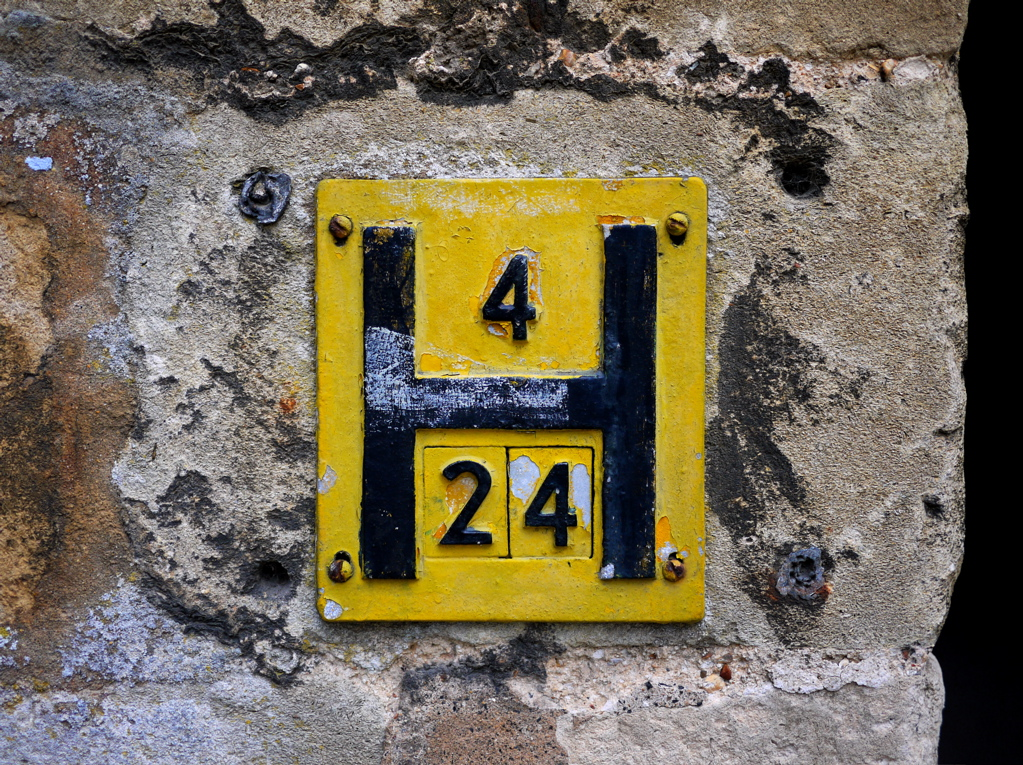 Image of the letter 'H' (Latin alphabet), to illustrate an example of a balbis.